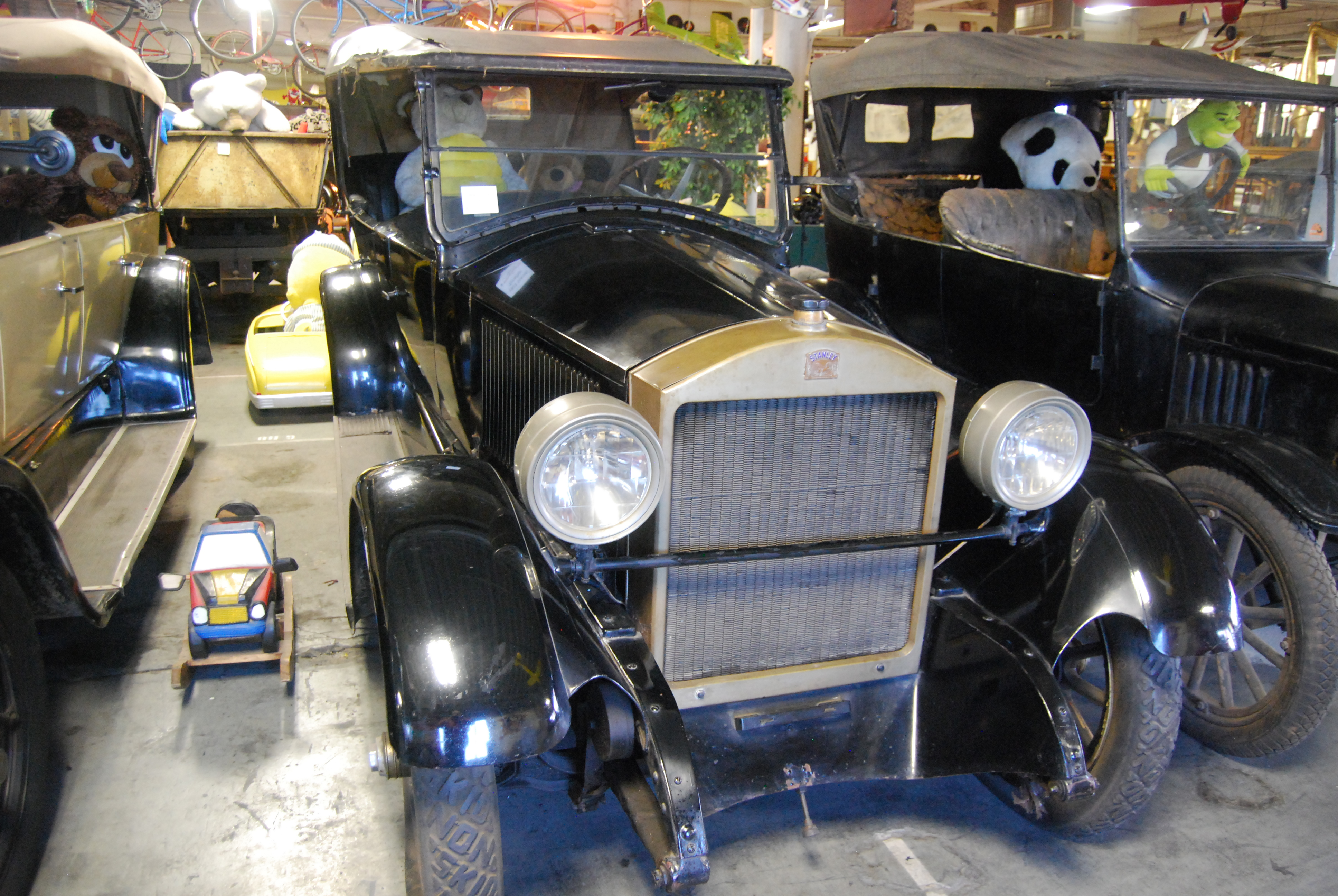 This luxurious Stanley Sedan was constructed only two years before the company shut down. It has a thirty gallon tank to hold the water for boiling, and is on display at the American Treasure Tour